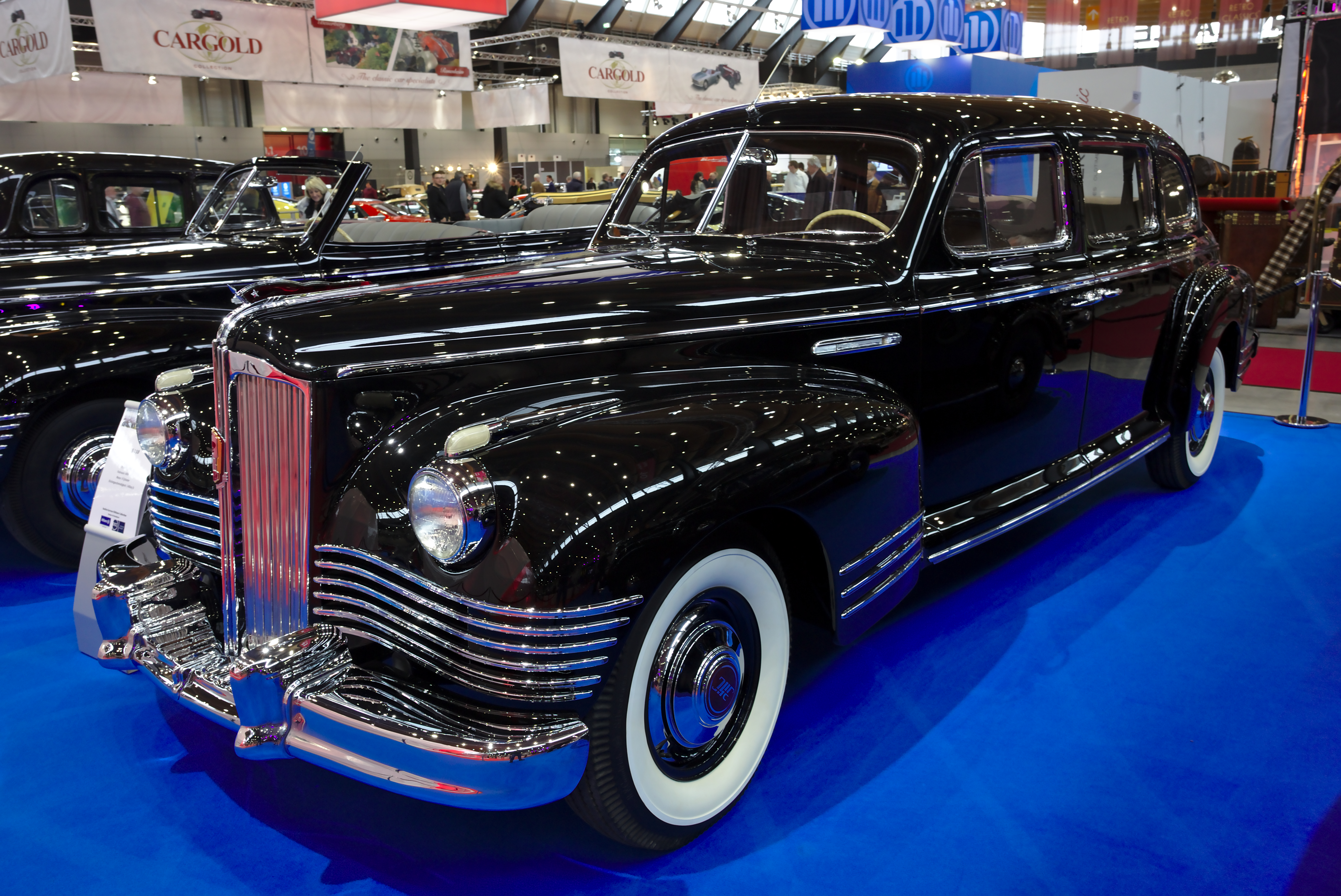 ZIS 110 at Retro Classics 2018